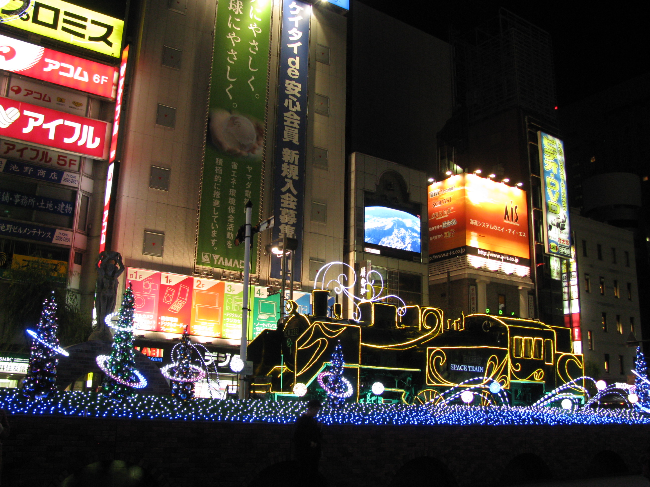 The Shinbashi. This location is front of Shinbasi Station in Minato, Tokyo, Japan.